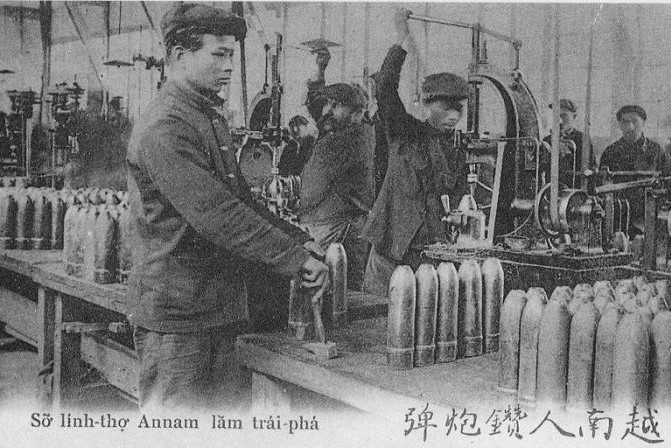 Weapon factory in World war II